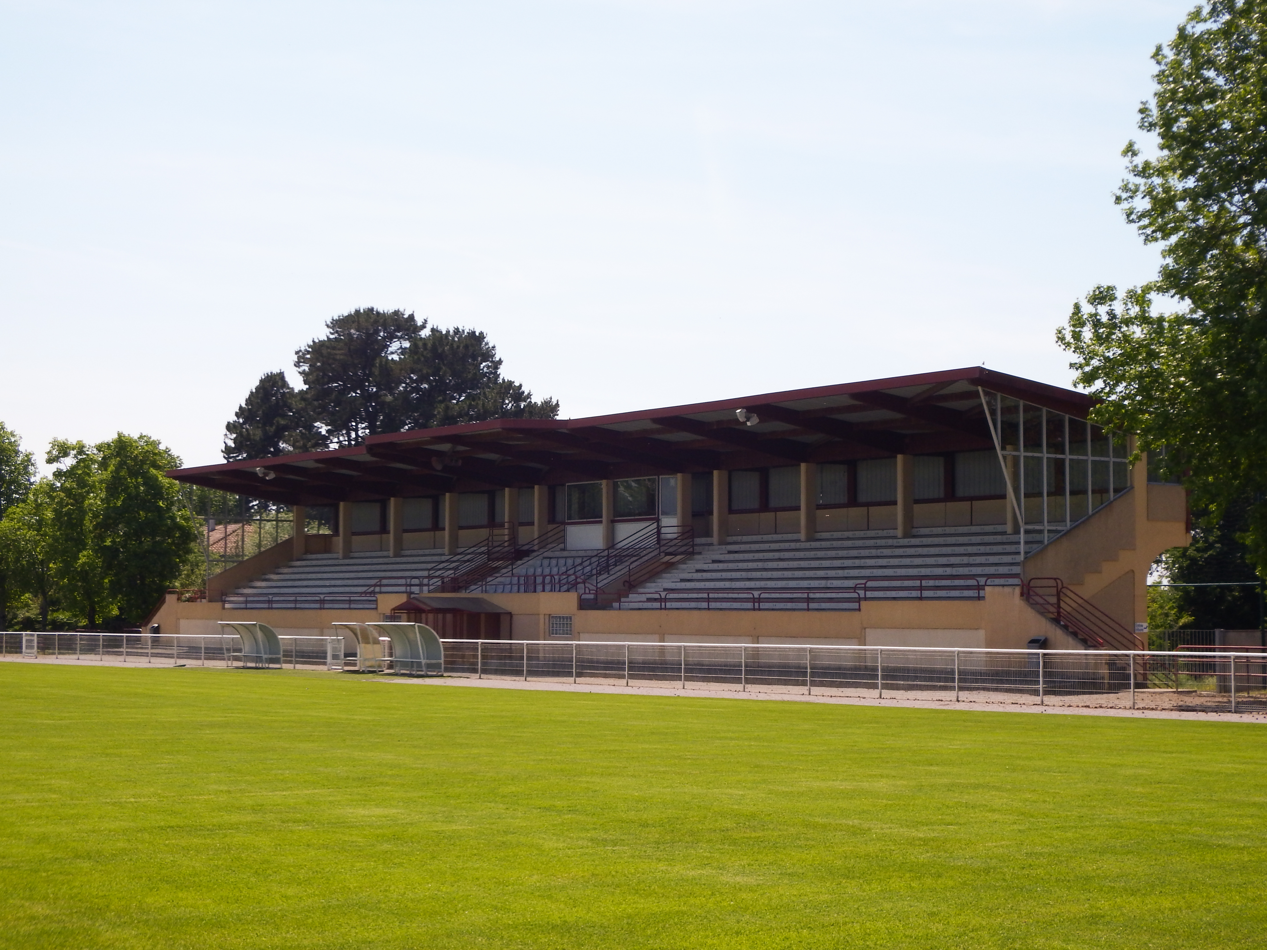 Tribune of municipal stadium of Saint-Paul-lès-Dax